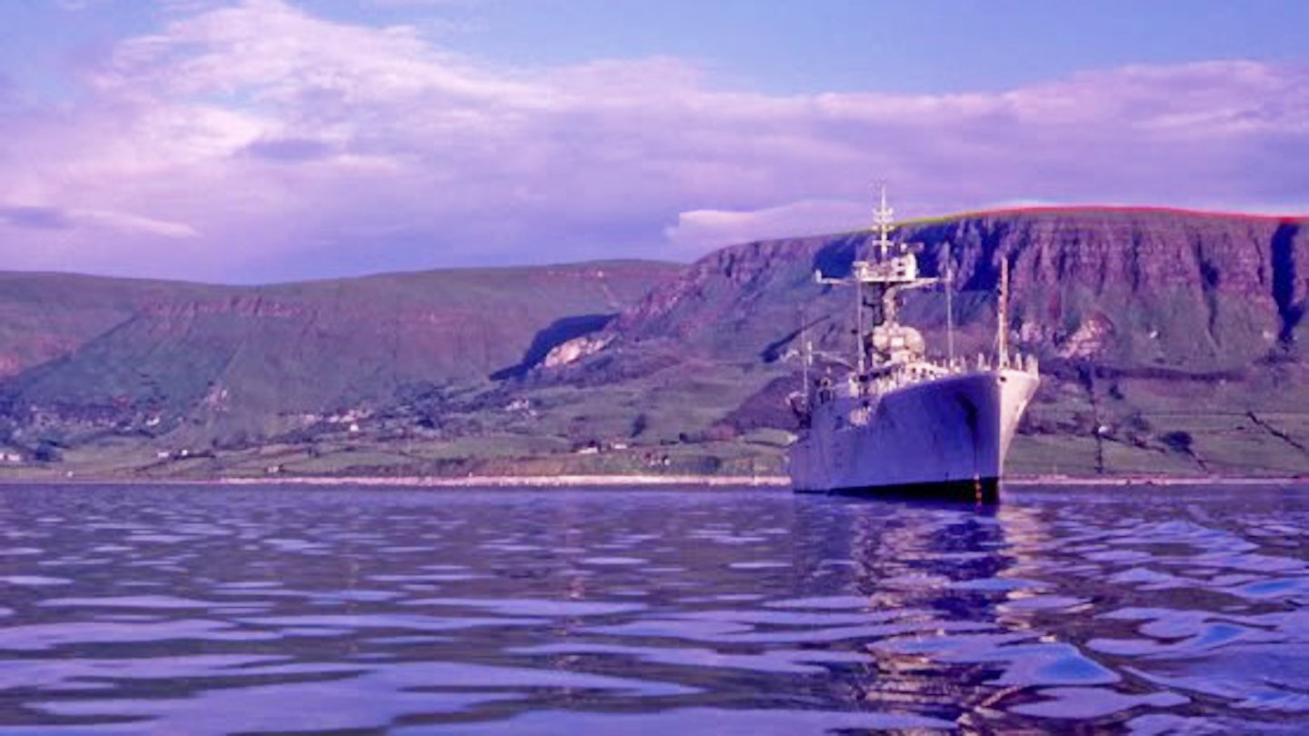 HMS Rhyl in the Irish Sea, 1966; taken from HMCS St. Laurent's Zodiak. The photographer was a Combat Information Operator (Radar Plotter) who had visited the Rhyl for the day.